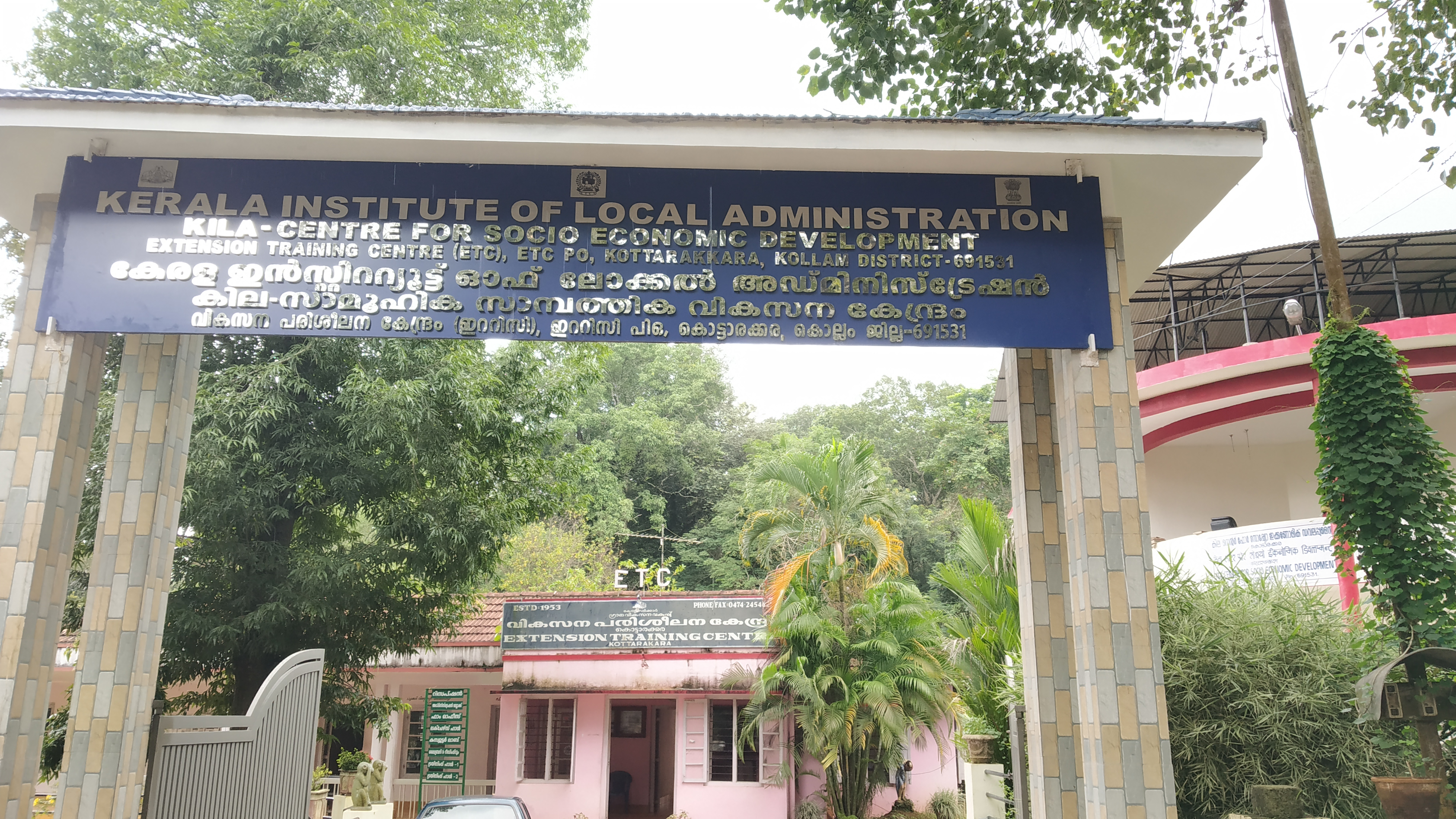 KILA, kottarakkara